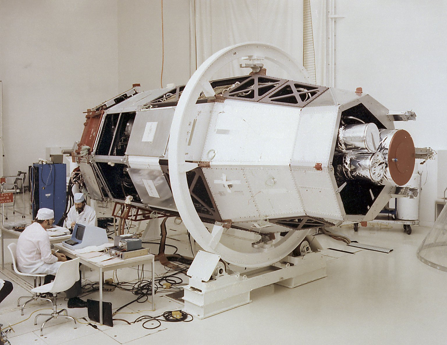 This photograph shows the High Energy Astronomy Observatory (HEAO)-2 experiment level testing after integration at TRW, Inc., the prime contractor for the HEAO. The HEAO-2, the first imaging and largest x-ray telescope built to date, was capable of producing actual photographs of x-ray objects. TRW, Inc. designed and developed the HEAOs under the project management of the Marshall Space Flight Center. The HEAO-2 was originally identified as HEAO-B but the designation was changed once the spacecraft achieved orbit.